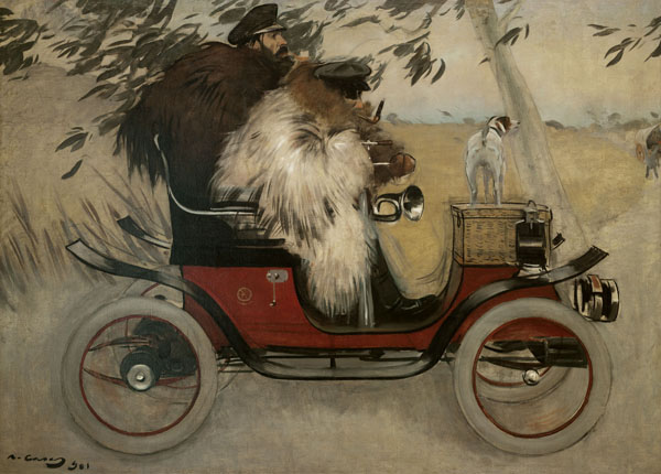 Ramon Casas and Pere Romeu in an automobile. Painted in 1900 for display at Els Quatre Gats, a bar in Barcelona that was the center of the Modernisme movement.